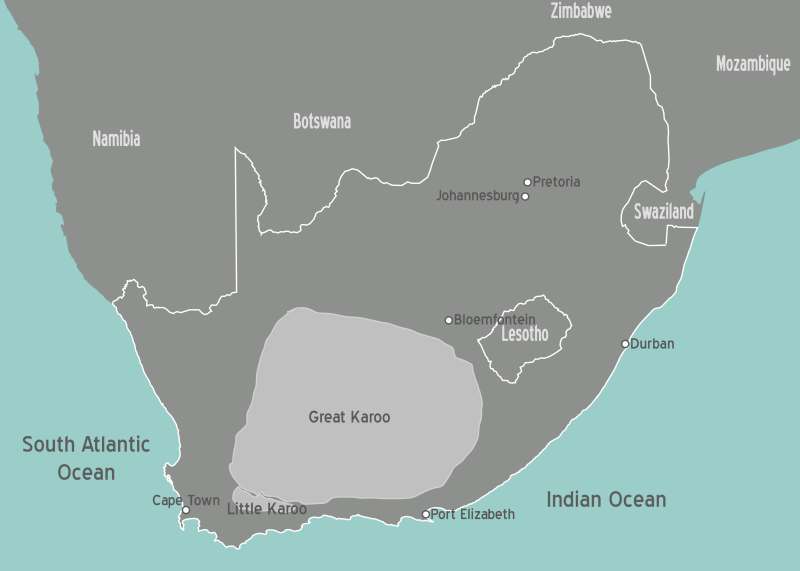 Map South Africa, Karoo Nick Roux 2006 Source :Image:Image:Map-South_Africa.svg map: South Africa Map of: South Africa